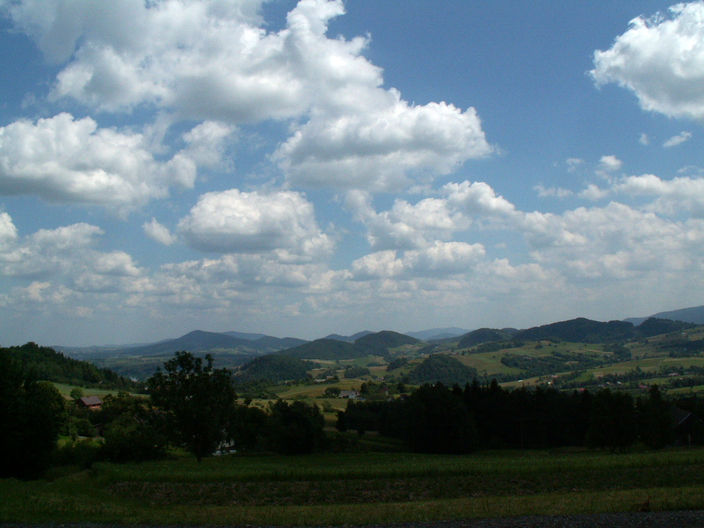 Pieninki Skrzydlanskie (view from the west),Beskid Wyspowy,Carpathian Mountains,Poland